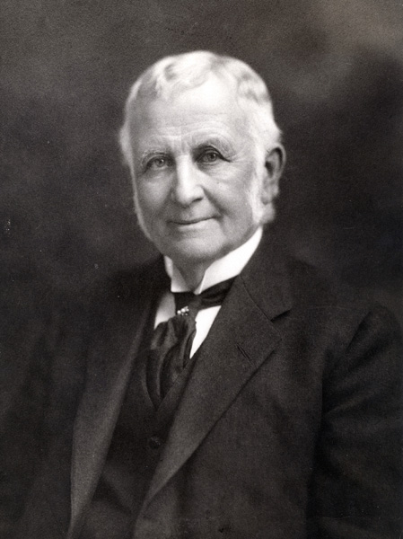 Portrait of William Van Duzer Lawrence